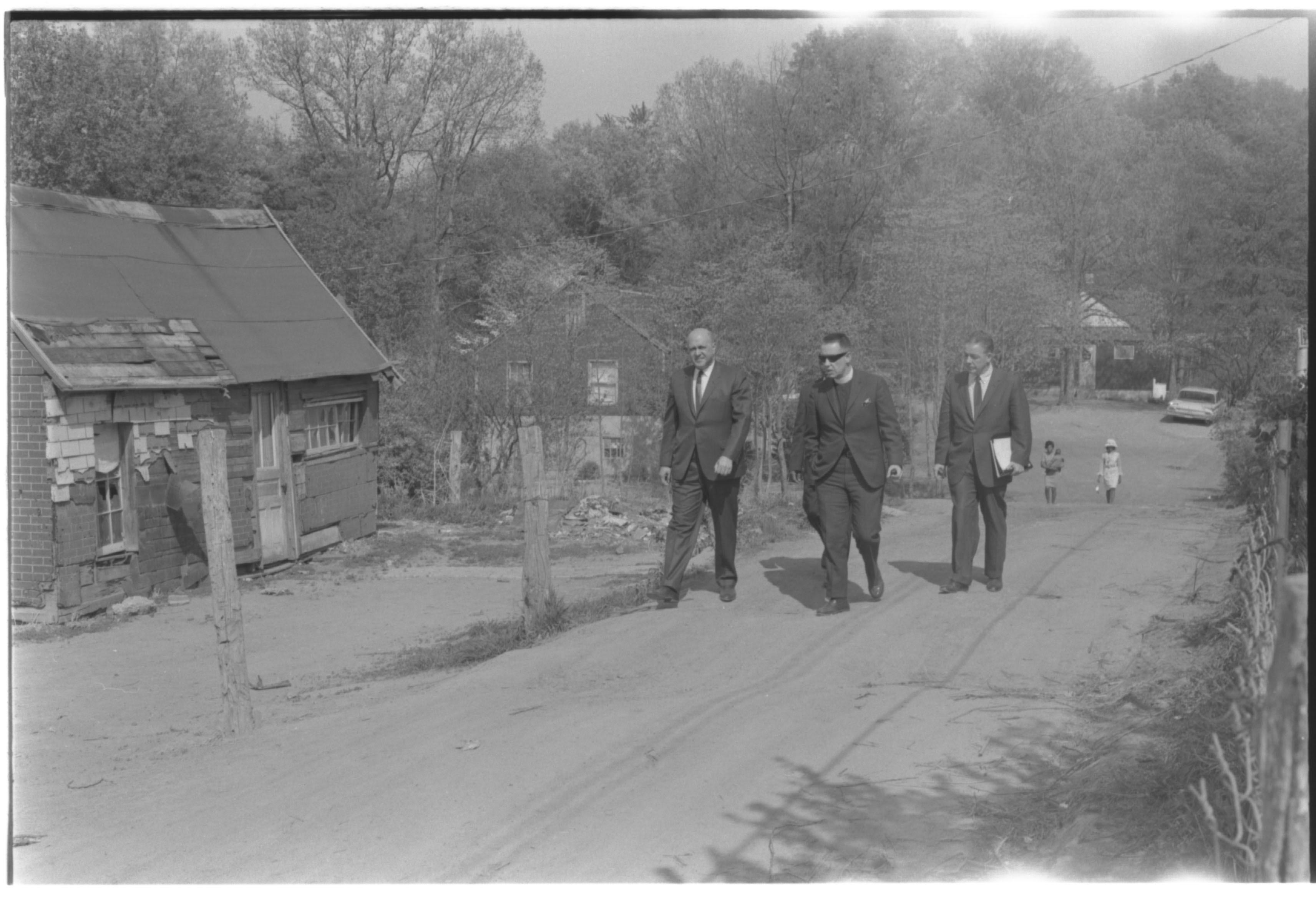 Secretary of Housing and Urban Development Robert Weaver visits Scotland community in Montgomery County, Maryland (believed to be April 1968 for groundbreaking event).